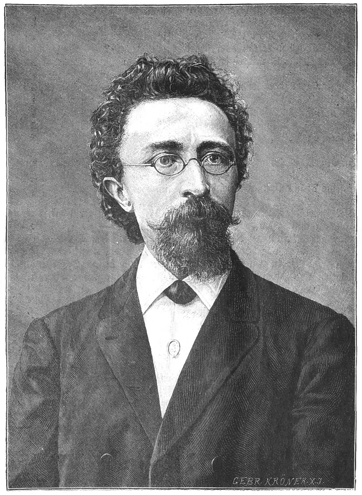 caption: "Anton Ohorn."